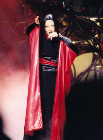 Photo taken at the concert